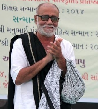 Sanju Vala were accepting Darshak Sanman Award ગુજરાતી: કવિ સંજુ વાળા - દર્શક સન્માન ૨૦૧૪